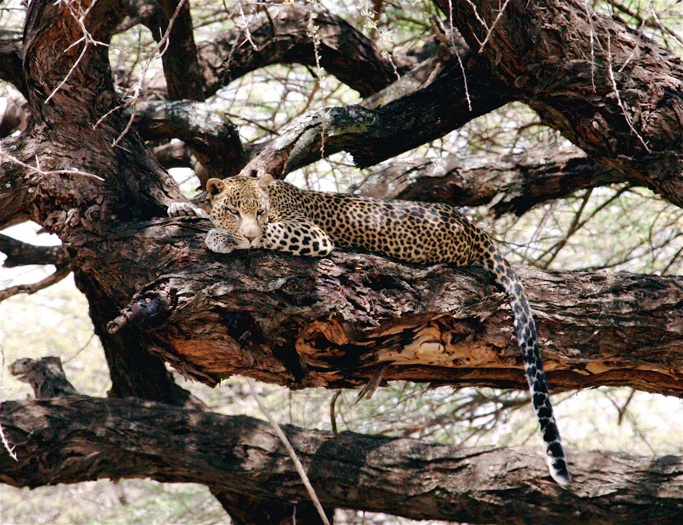 African Leopard in tree. Samburu National Reserve, Kenya.